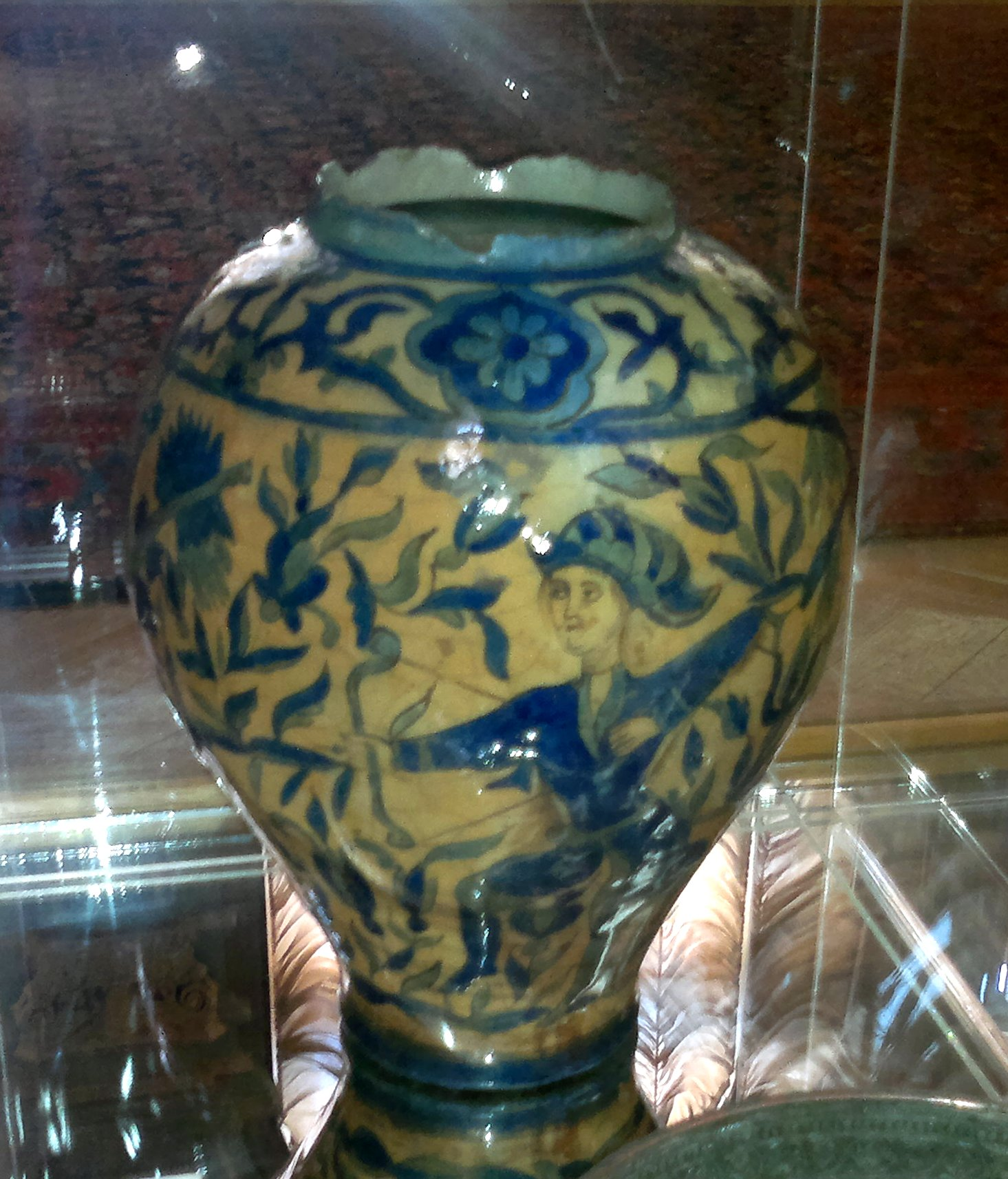 Faience vase of Erivan Khanate. Museum of History of Azerbaijan, Baku.